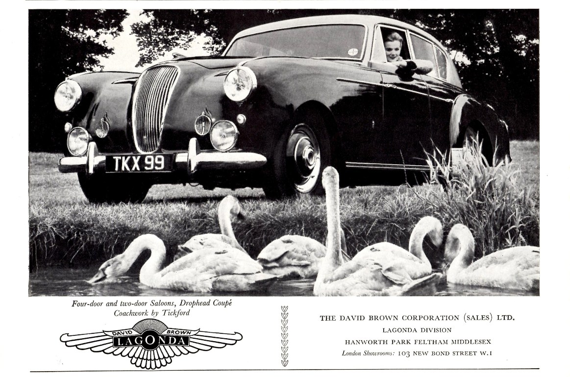 Lagonda joined Aston Martin in the David Brown Company stables in 1947. Rumors are that the name will return soon as a luxury line of sedans and/or crossover vehicles under the Aston Martin marque name.